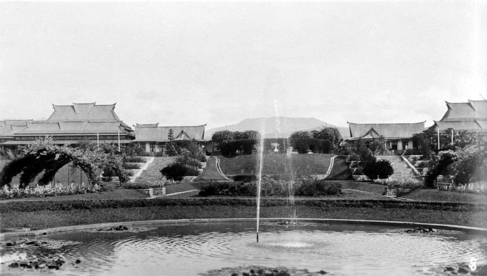 The "IJzerman Park" at the Institute of Technology, Bandung